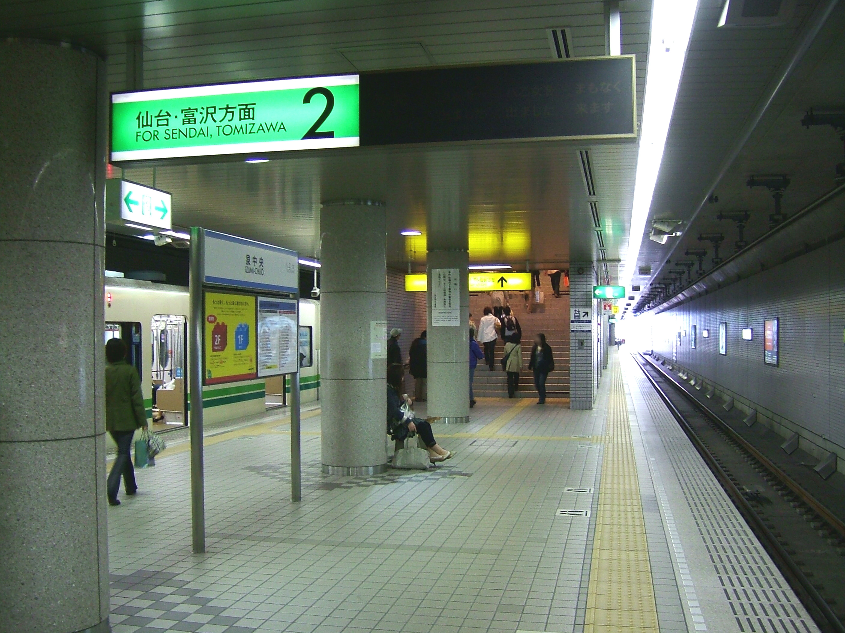 The platform of Izumi-Chūō Station, Sendai subway Nanboku Line